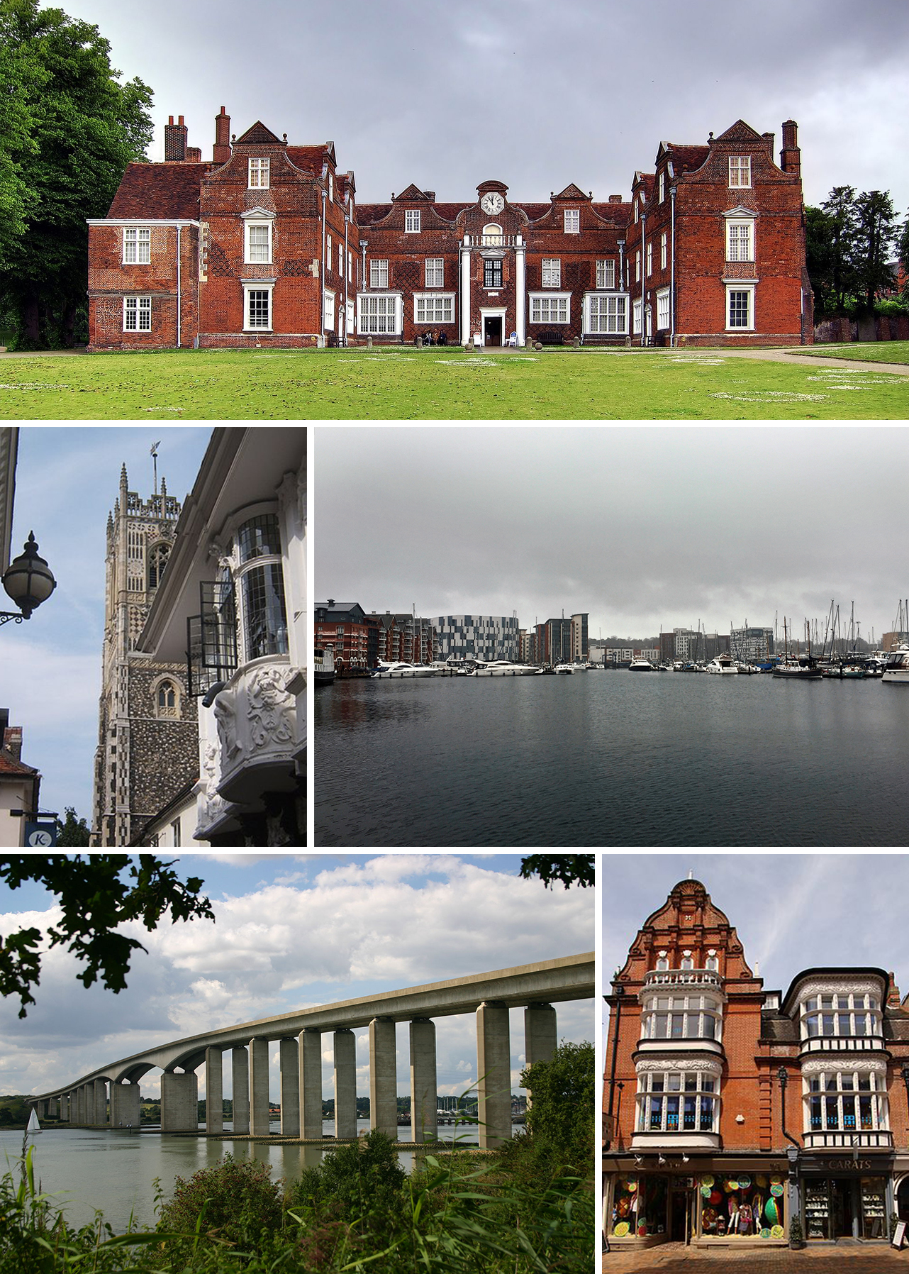 Montage of Ipswich